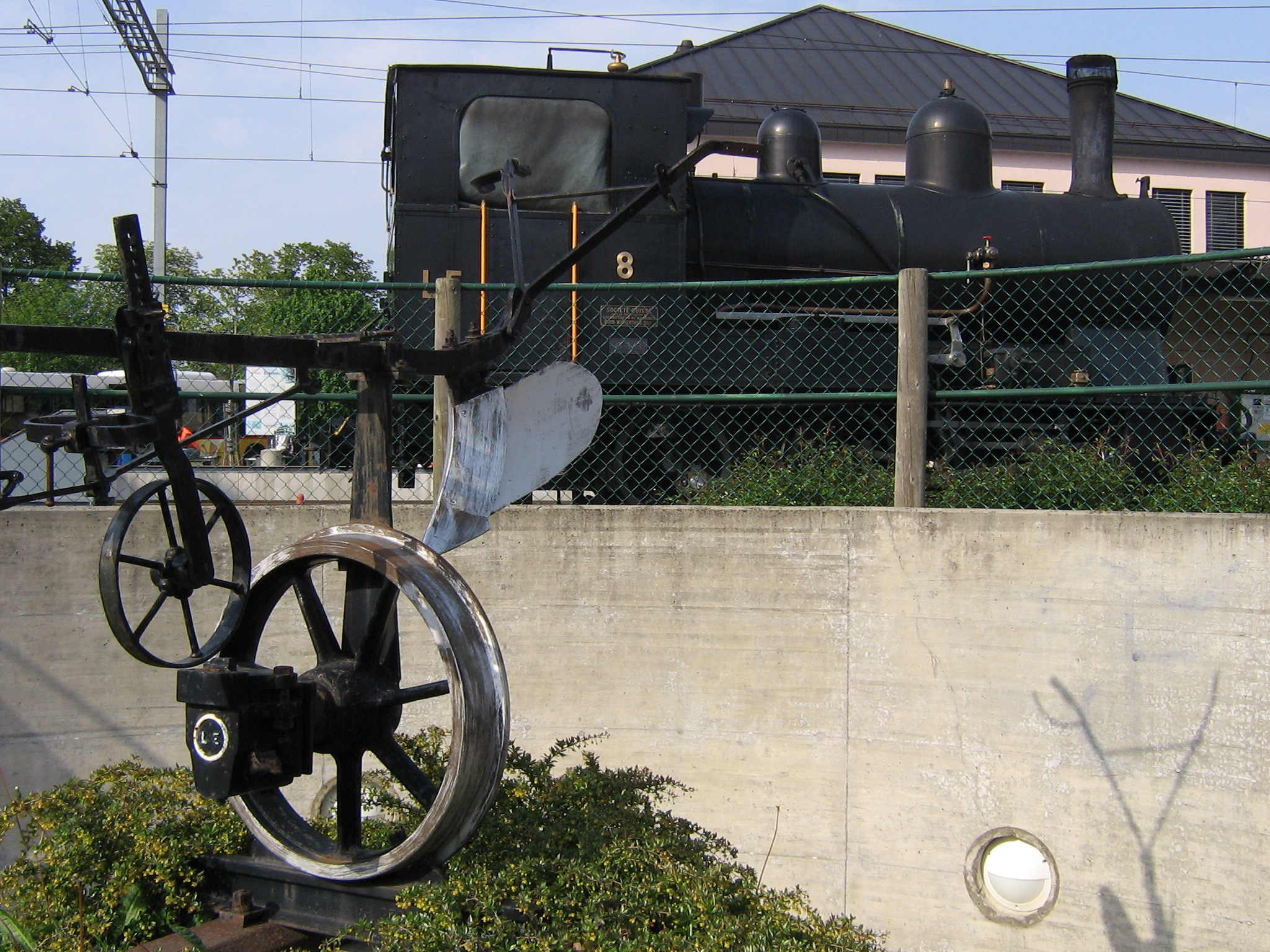 In the background, locomotive G 3/3 8 Echallens at Echallens workshop. In the foreground, a sculpture made from old railway equipment.